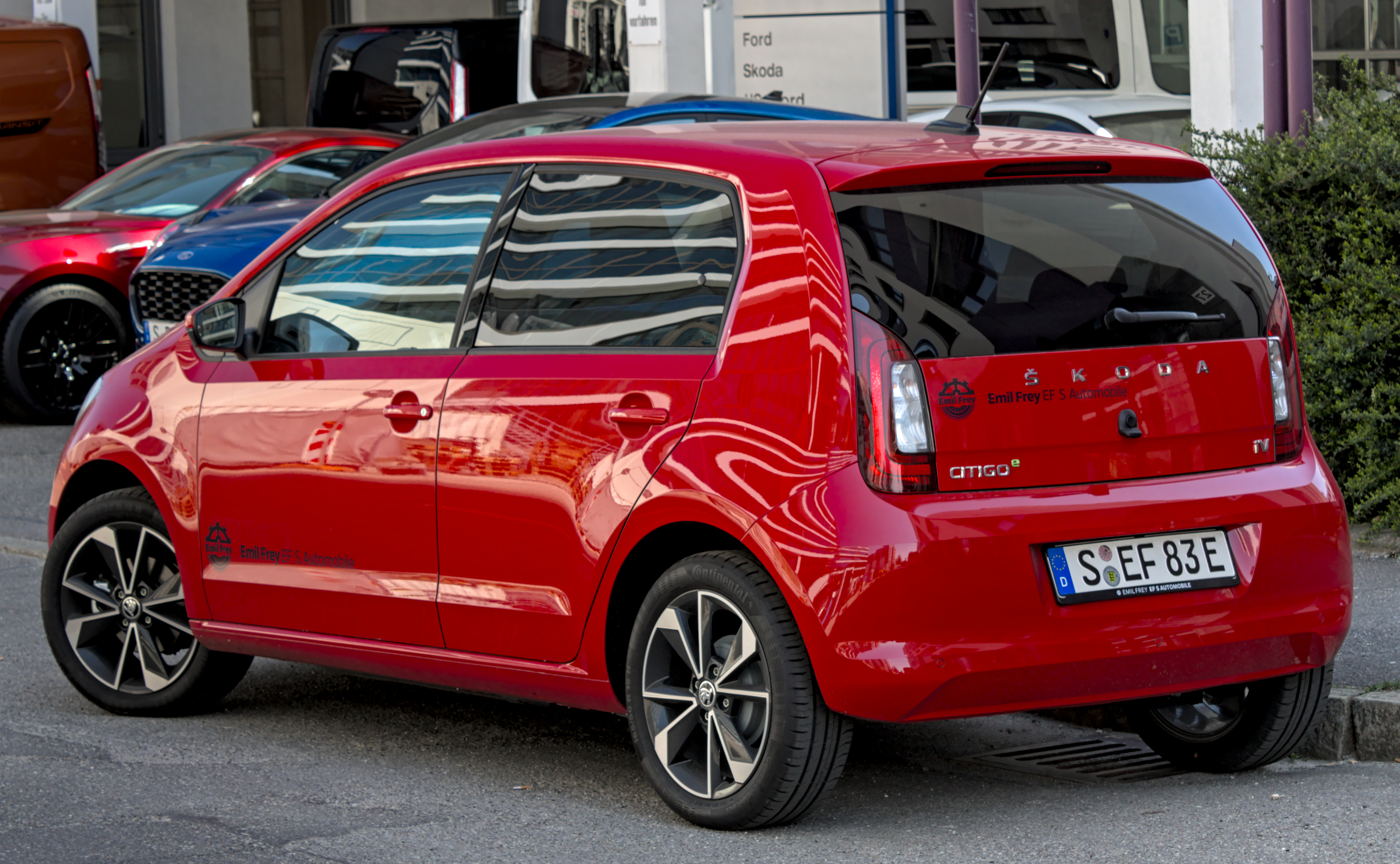 Skoda_Citigo-e_iV in Stuttgart-Vaihingen